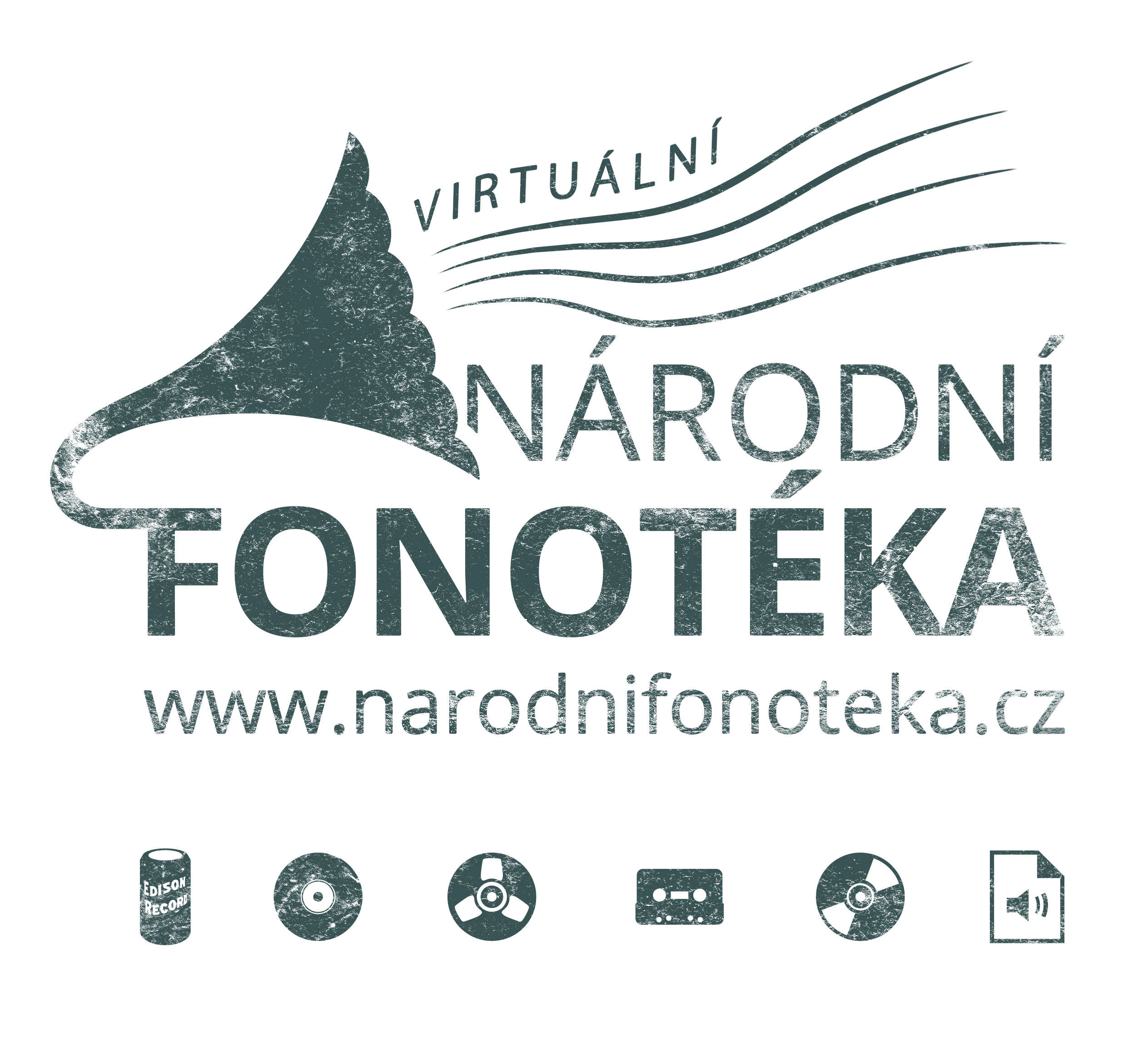 Virtual National Phonotheque